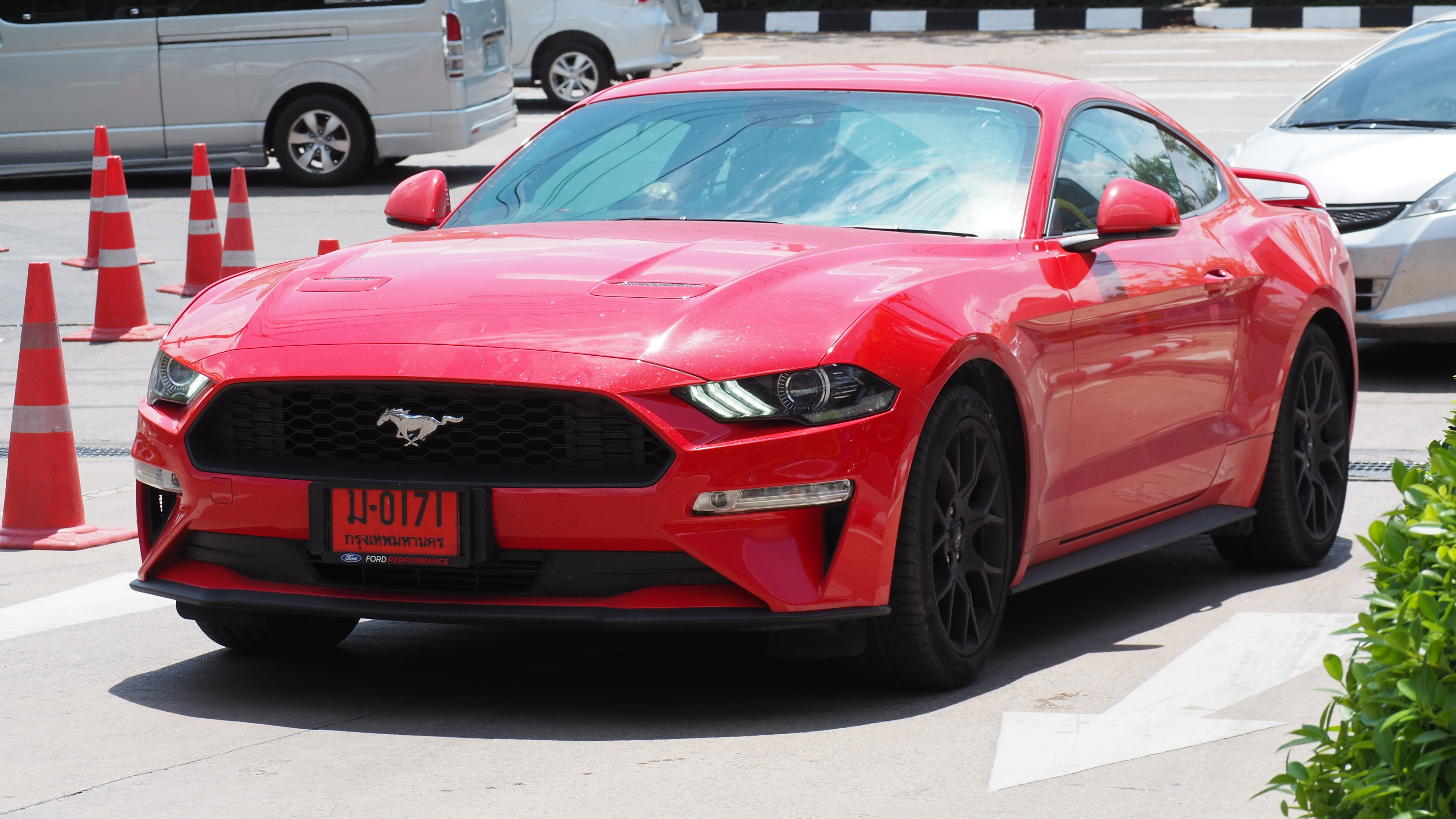 2018 Ford Mustang 2.3L EcoBoost Coupe Performance Pack in Central Plaza Khon Kaen, Khon Kaen, Thailand.